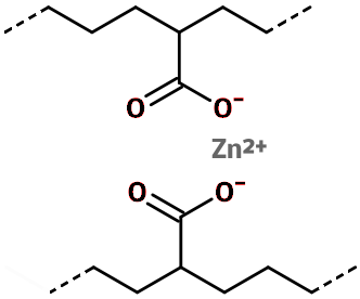 Example of ionomer. For this structure, the divalent cation may be: Zn2+, Ca2+…